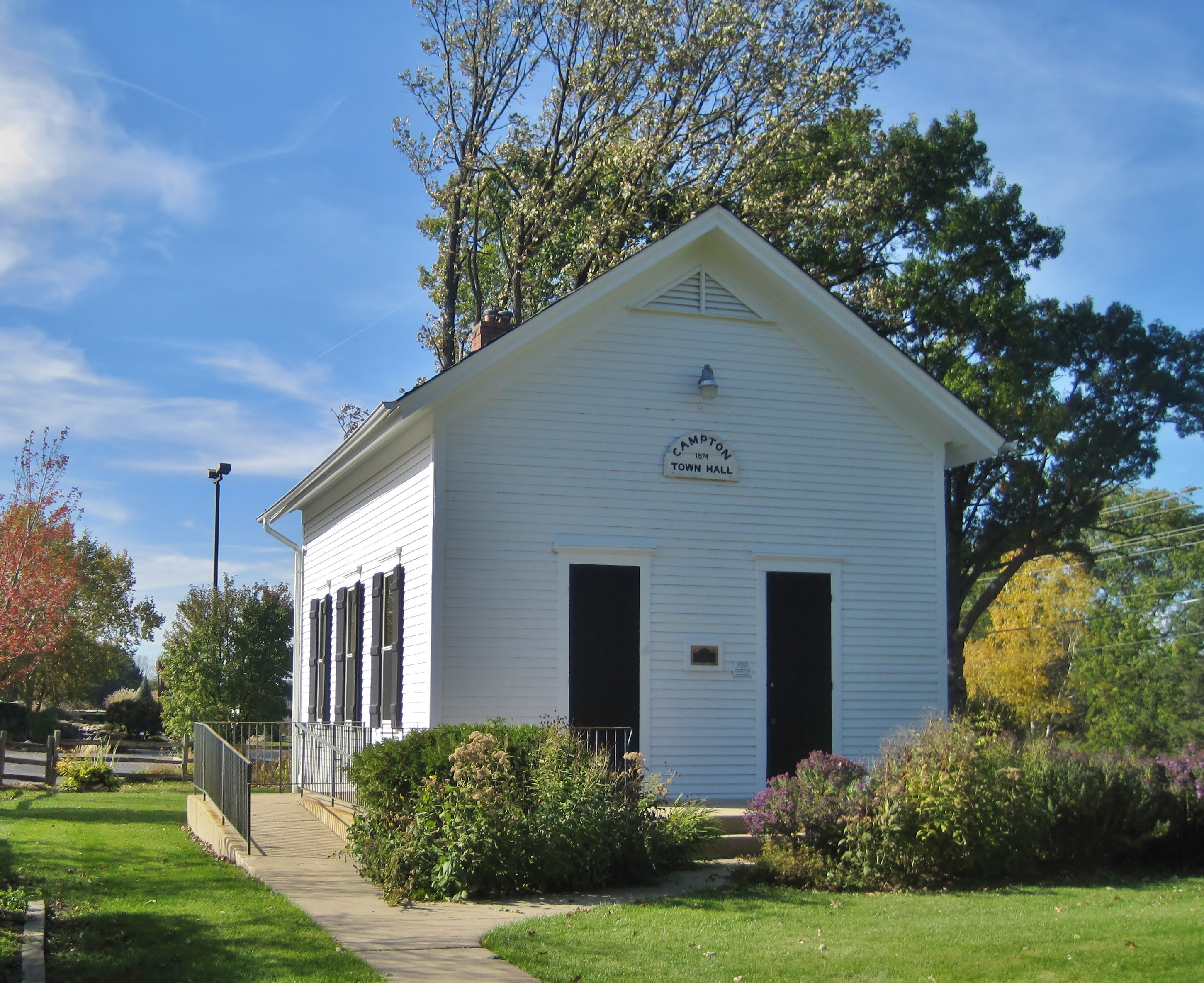 Campton Town Hall in Campton Hills (1874). It has been used continuously since 1874, largely as administrative offices for Campton Township.